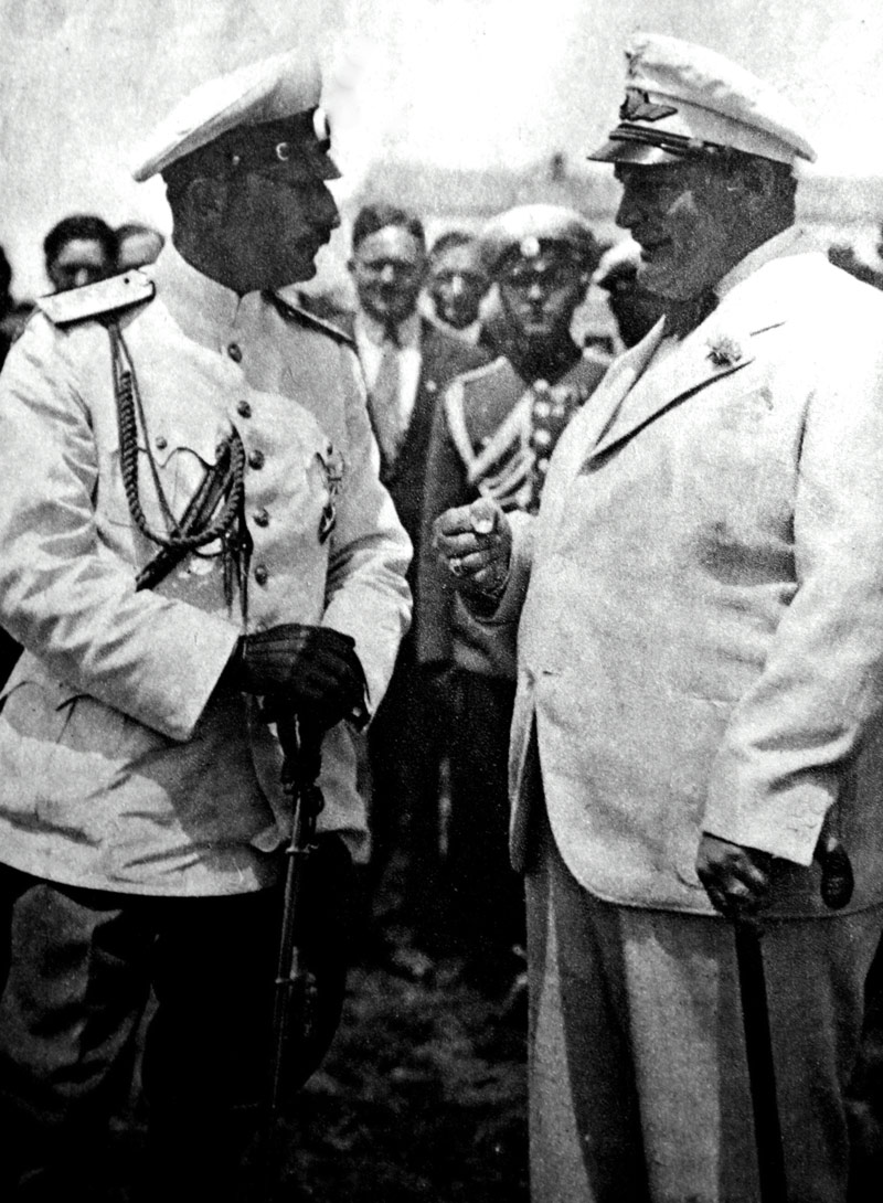 Hermann Goering and tzar Boris III, 1935